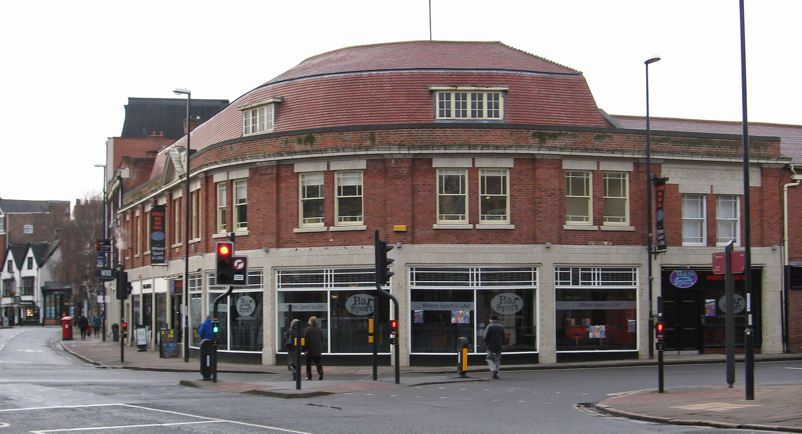 Derby - former Kenning's car showroom was built by Sir George Kenning at a cost of £20K and called "Morris House"